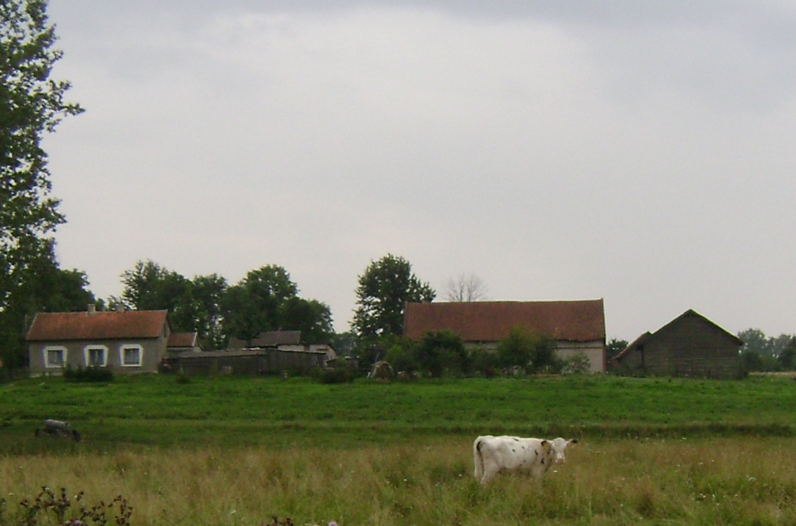 Dybowo